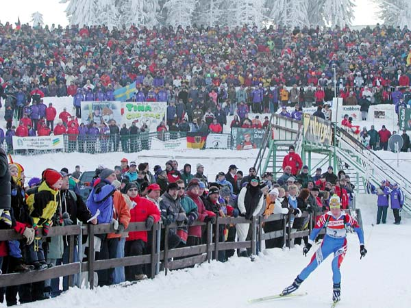 Biathlon in Oberhof (Germany), World Cup event (Pursuit) in 2002